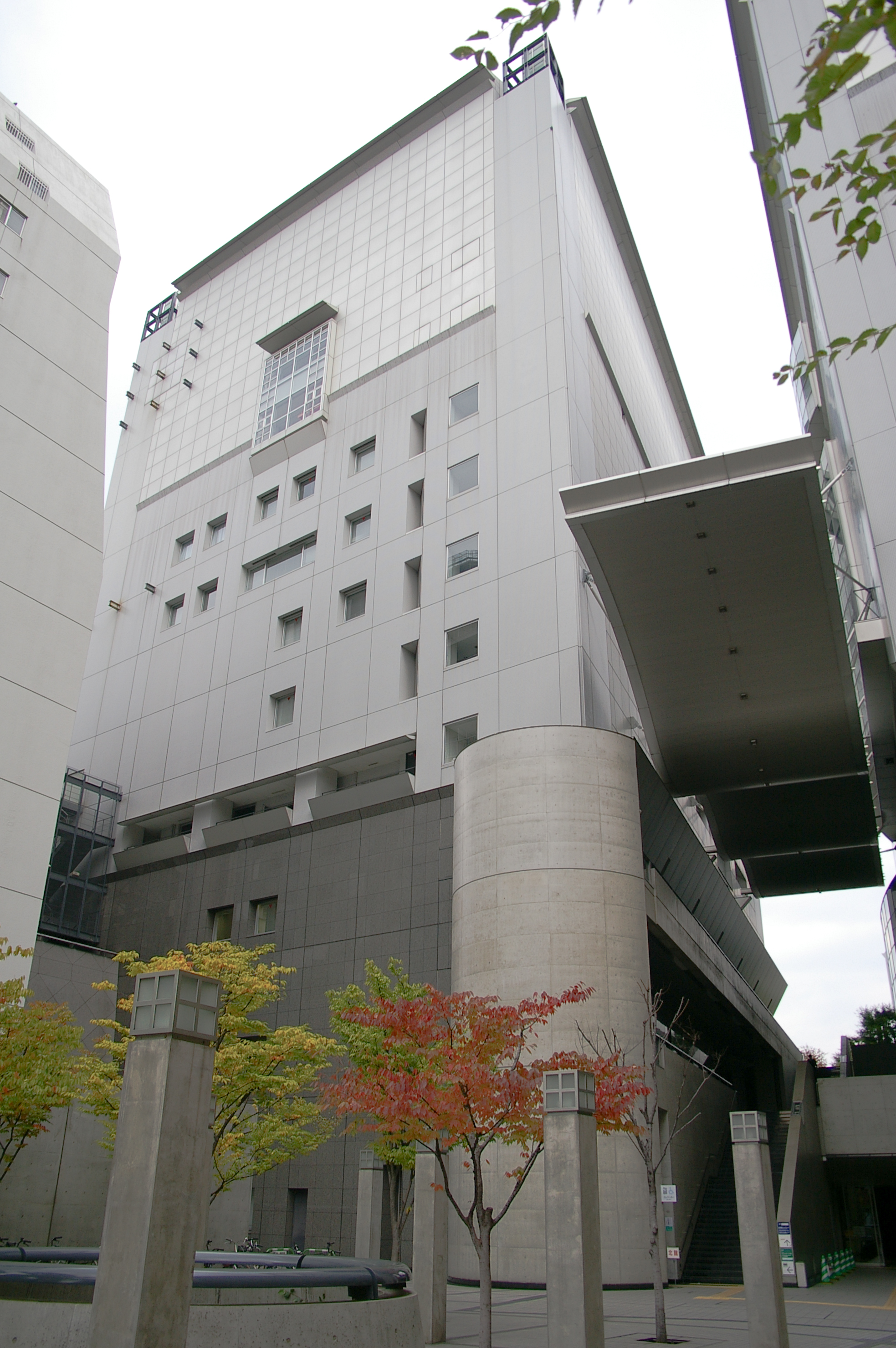 Photograph of Osaka Prefectural Government New Annex North Building in Chuo-ku, Osaka, Osaka Prefecture, Japan.